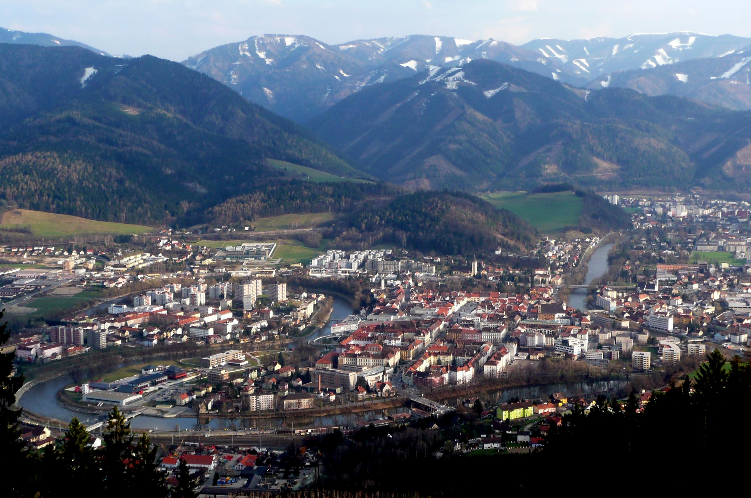 View on Leoben, Austria from the north